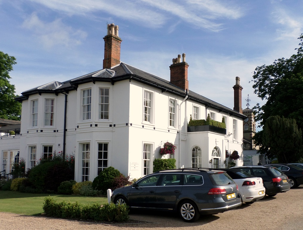 Bedford Lodge, Newmarket is part of a stable complex leased by George Alexander Baird in the 1880s until his death in 1893.